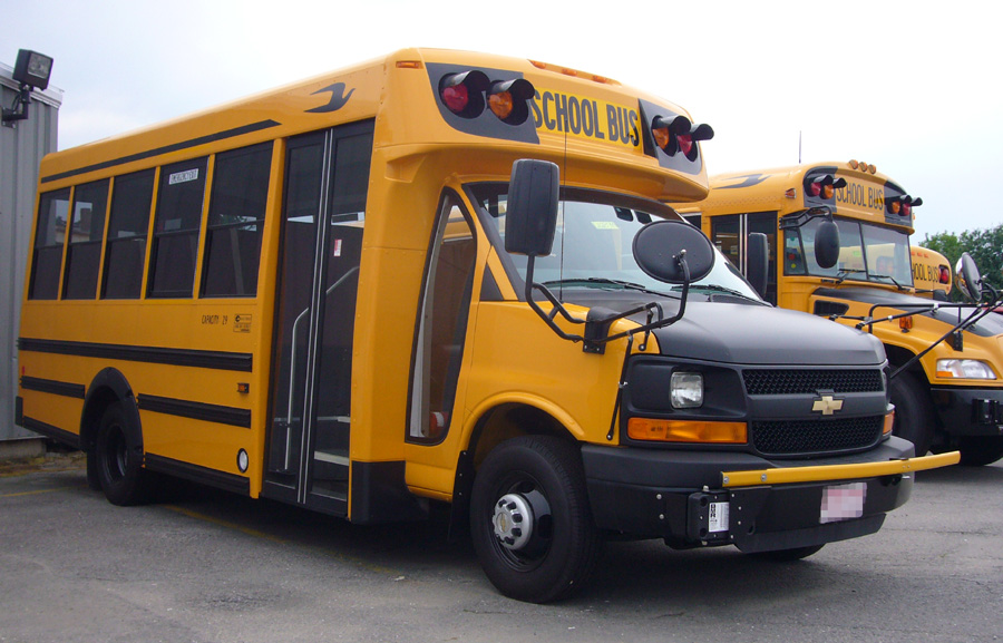 A 2011 Blue Bird "Micro Bird by Girardin" G5 school bus.